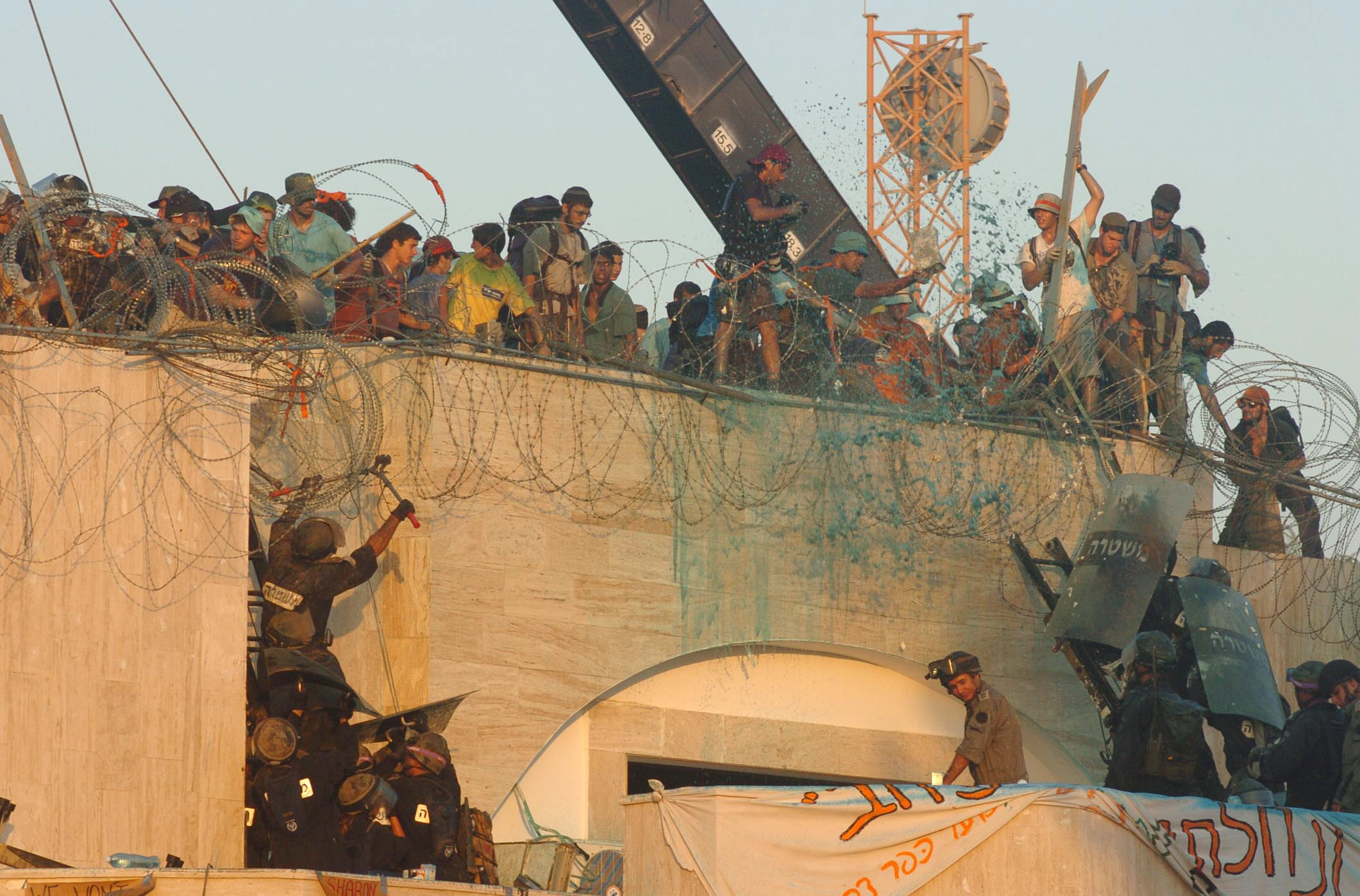 August 18, 2005. Residents riot during the forced evacuation of the Israeli community Kfar Darom. The evacuation of Kfar Darom was part of the Gaza Disengagement, which occurred during the summer of 2005.